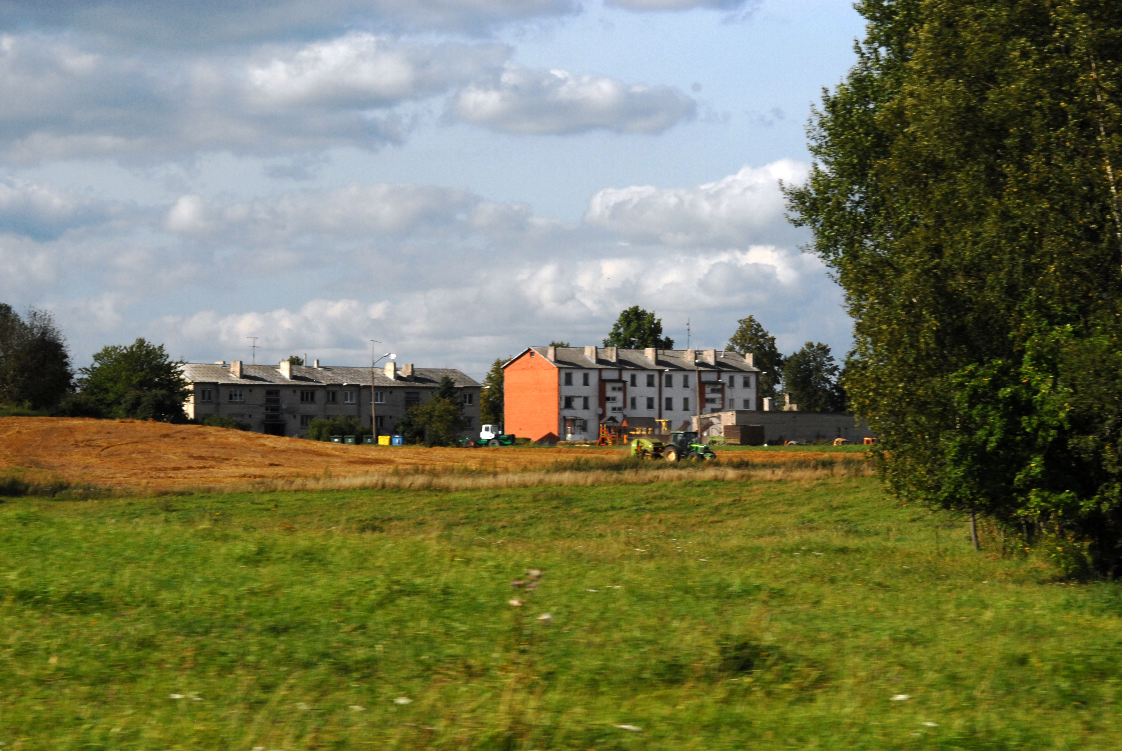 Priekule Municipality